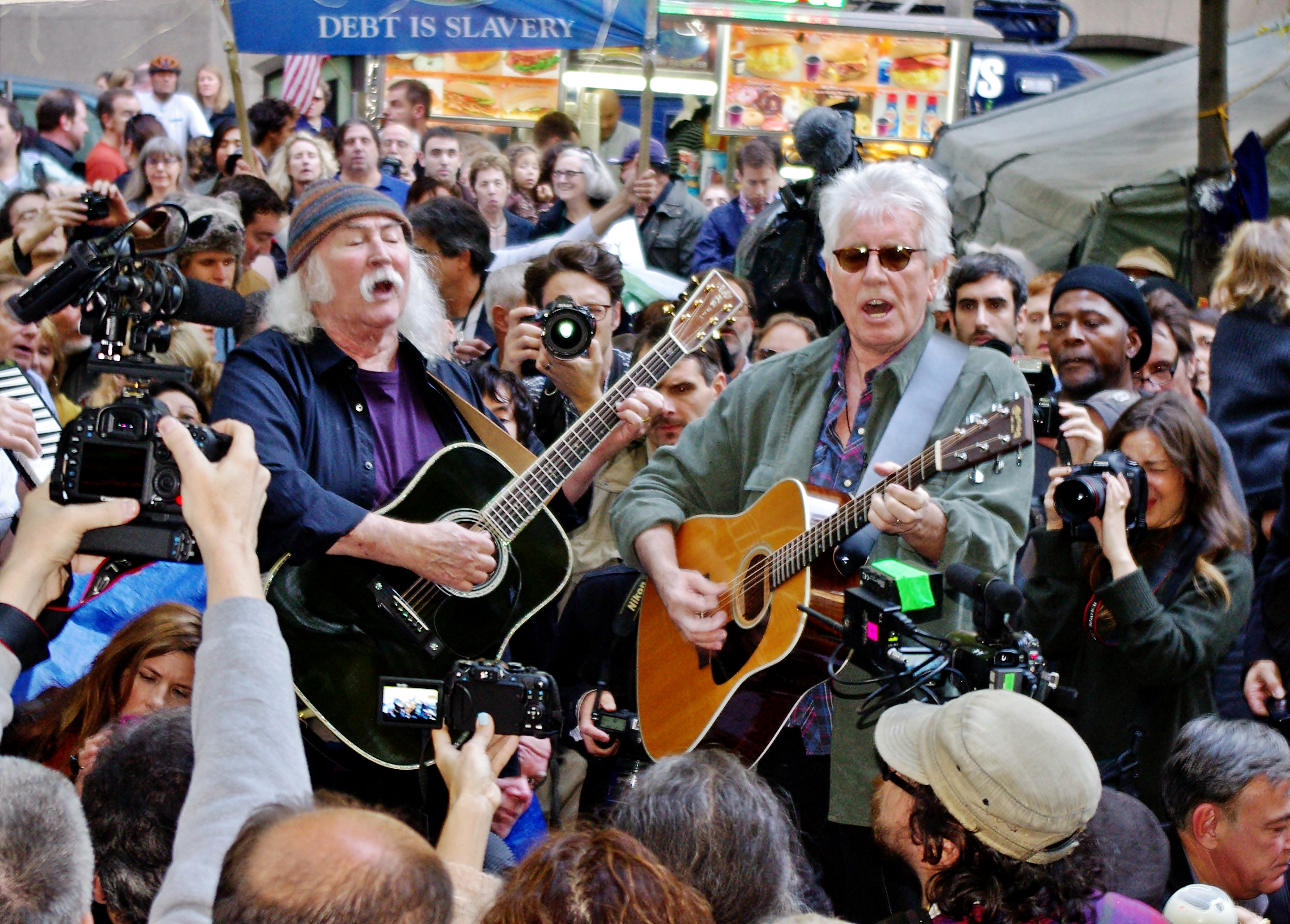 David Crosby and Graham Nash play Occupy Wall Street on Tuesday, November 8.